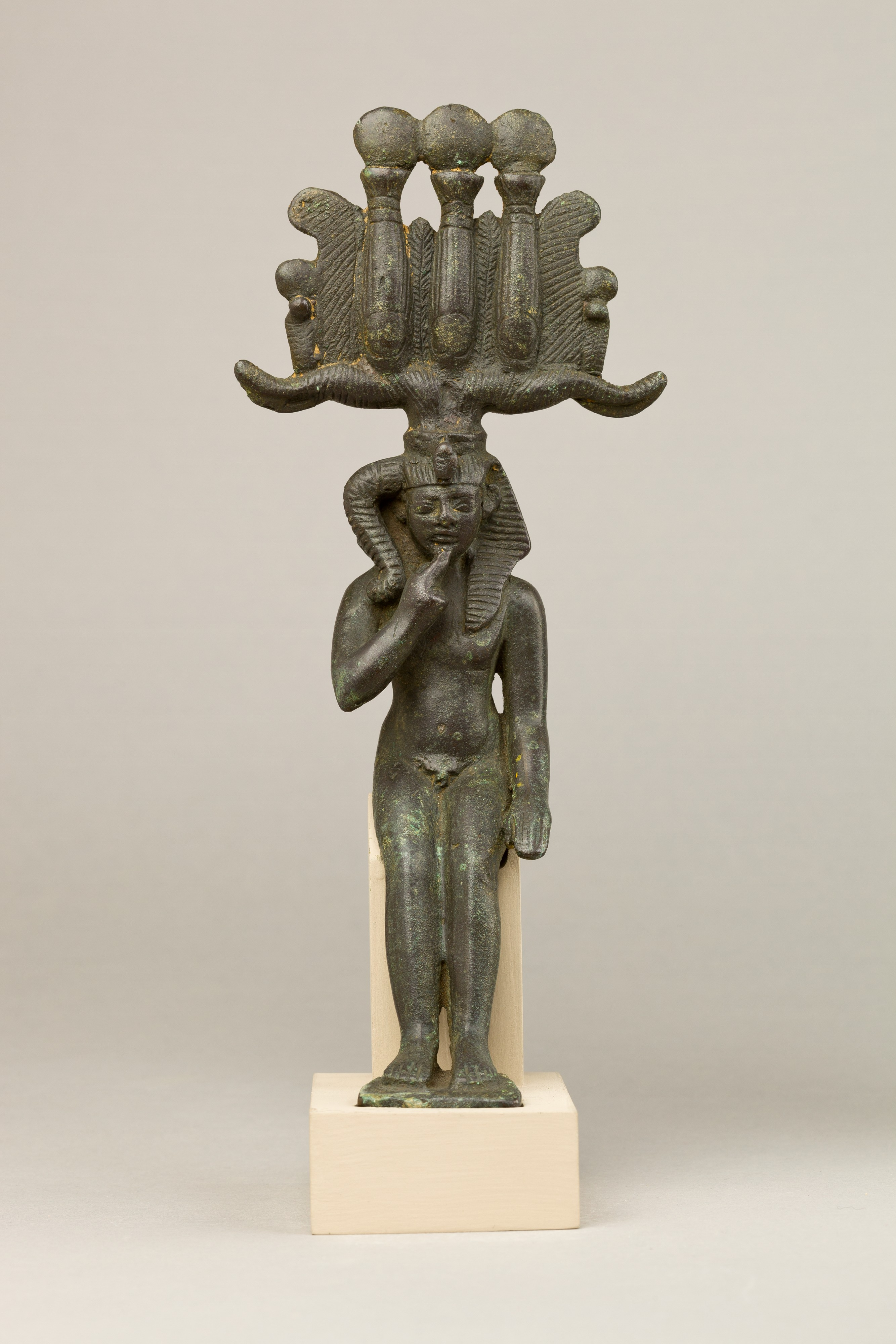 Statuette, child god